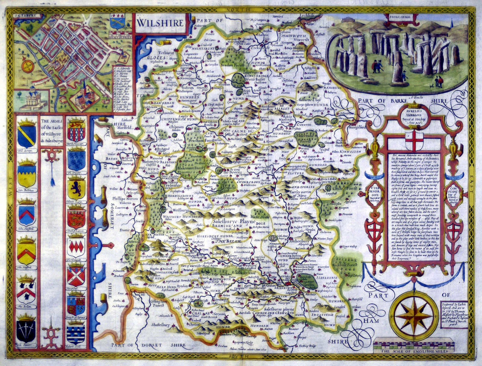 Map of Wiltshire by John Speed, from The Theatre of the Empire of Great Britaine (1611–1612)